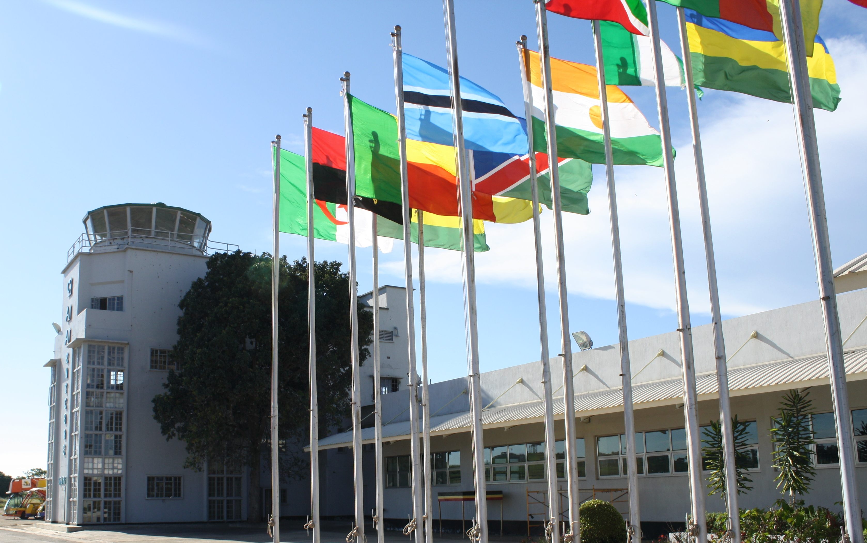 The old terminal building of the Entebbe International Airport. Photo was taken during Natural Fire 10, a multi-national, globally resourced military exercise focused on humanitarian assistance and disaster relief.